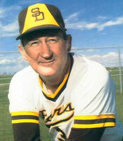 Professional baseball coach Roger Craig